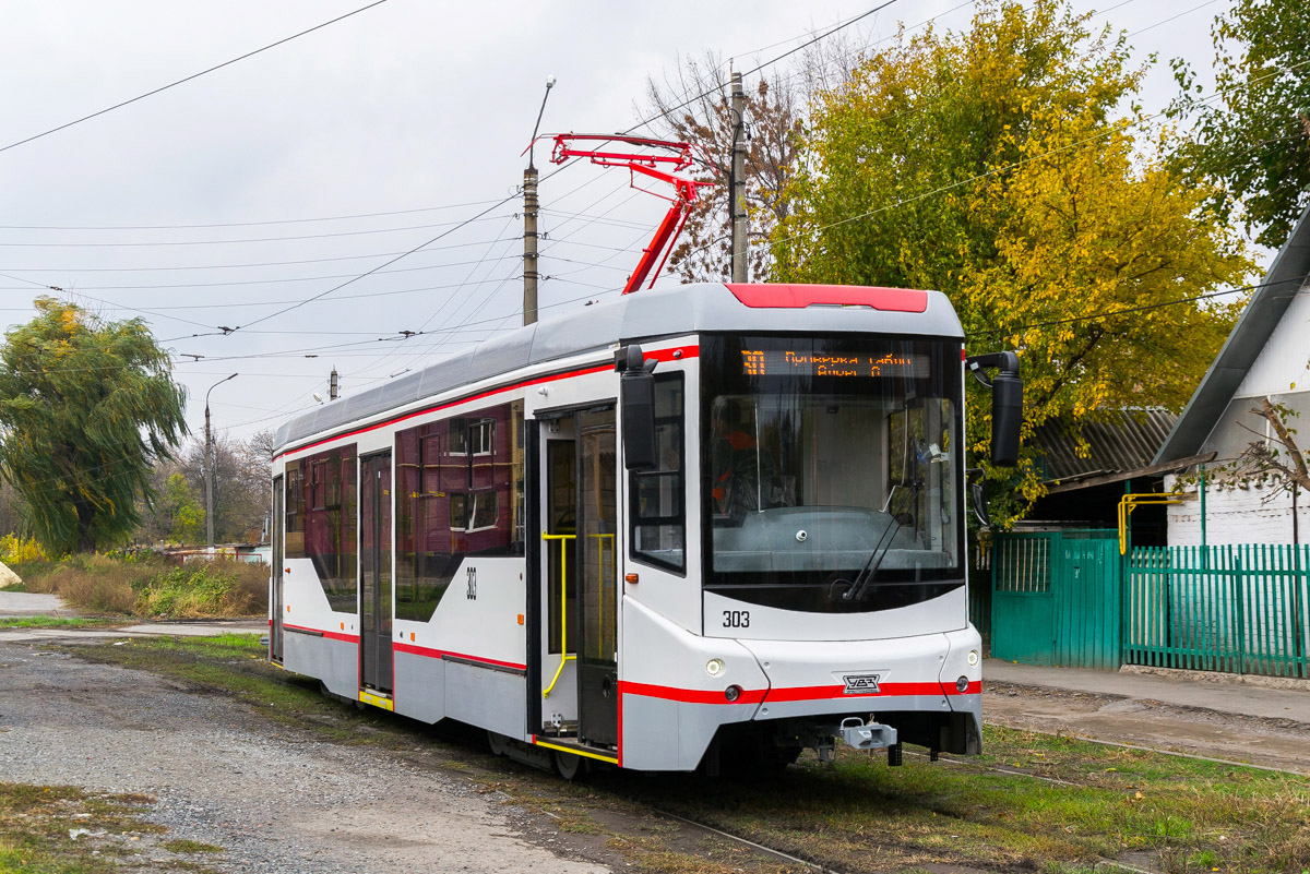 Novocherkassk Tram 71-407-01 (UTM-7-01) № 303 in Novocherkassk